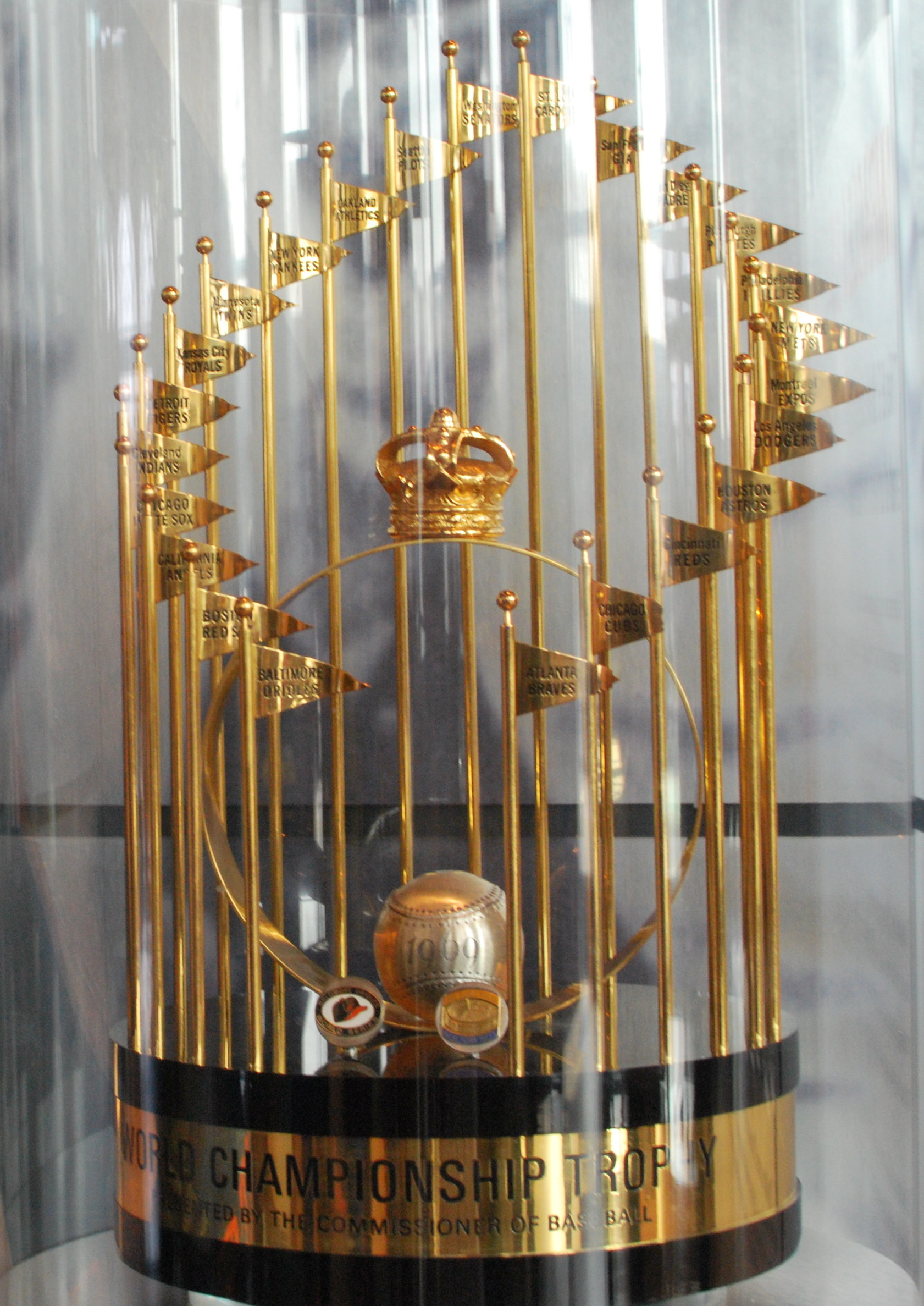 A fan poses with the 1969 Commissioner's Trophy at Citi Field in April 2010.